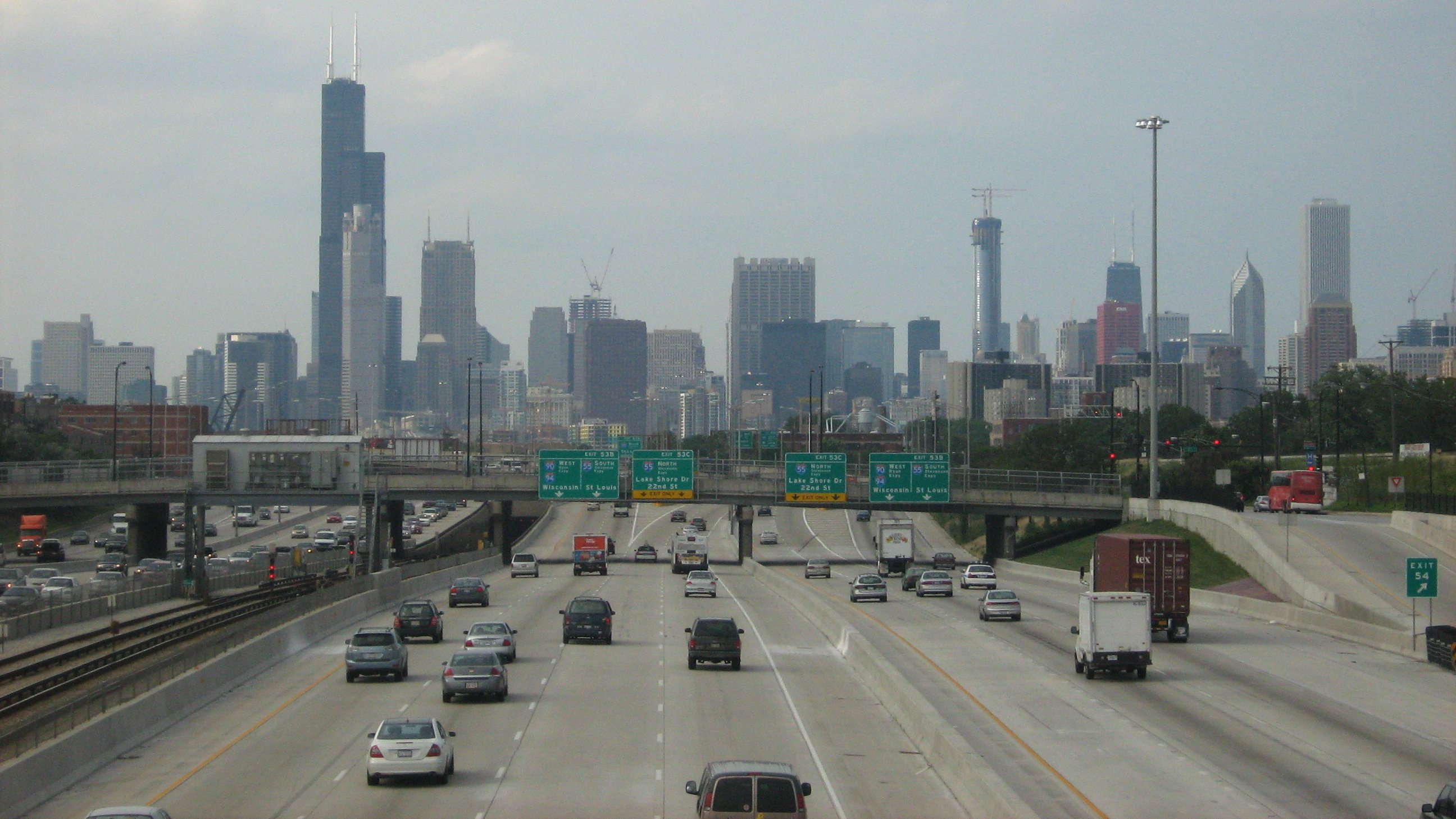 The busiest thoroughfare in Chicago.